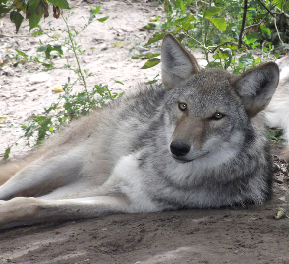 A coywolf created through a captive hybridization via artificial insemination between a female coyote and a northwestern gray wolf.